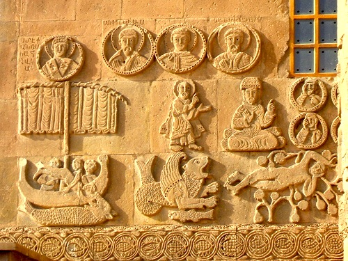 Armenian Cathedral of the Holy Cross on Akhtamar Island